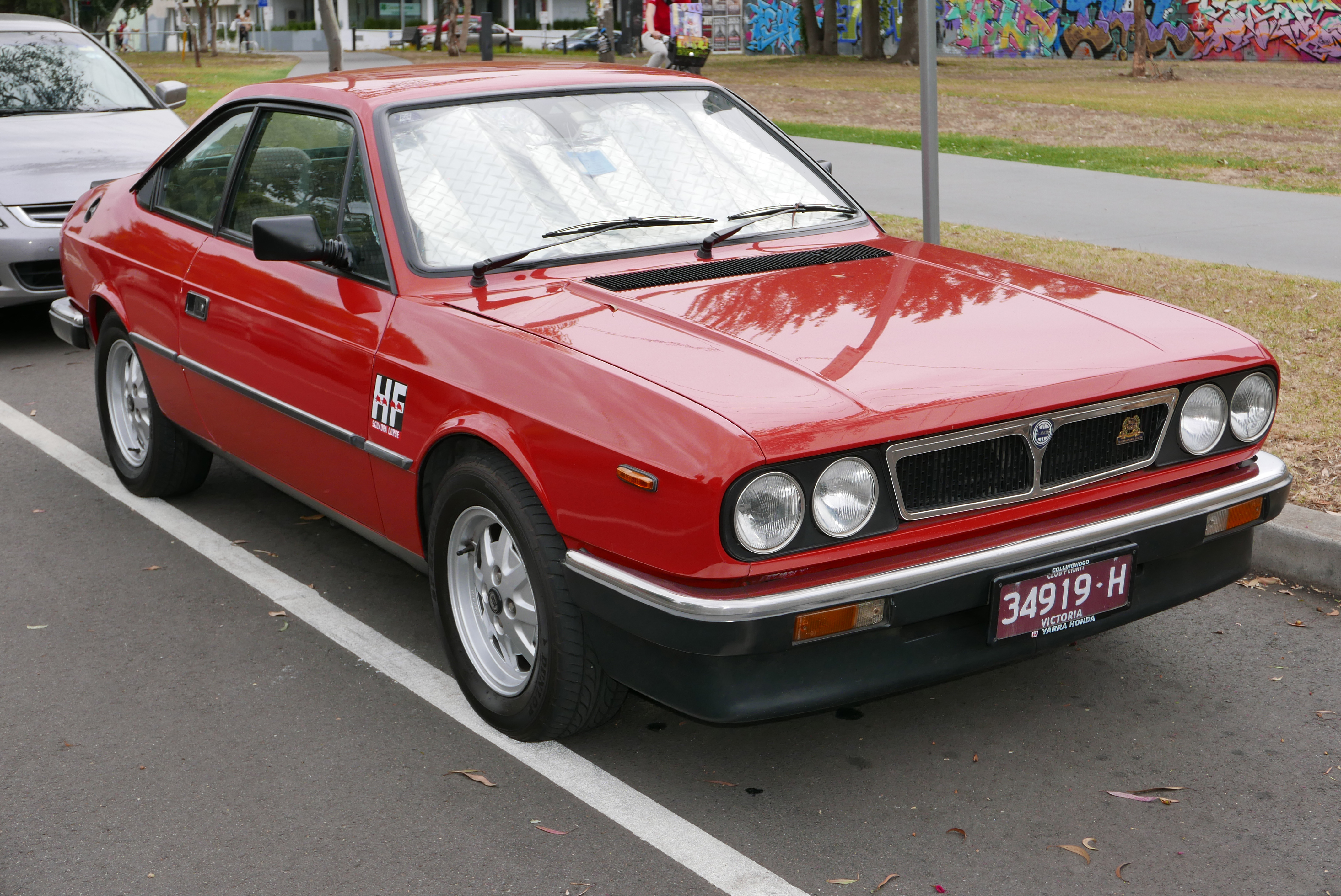 1982–1984 Lancia Beta 2000 coupe. Photographed in Carlton North, Victoria, Australia.